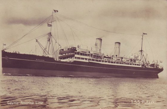 Picture postcard of ocean liner SS Pułaski from c. 1930–1939. SS Pułaski sailed for the Gdynia America Line between Poland and North and South America. She was the former SS Czar (or Царь in Russian) (1912) of the Russian American Line. She was also known as SS Estonia (1921), and SS Empire Penryn (1946). The ship was scrapped in 1949. Information about Pulaski may be found at IMO 1142324. A ship can change her name and flag state through time, but the IMO number remains the same through the hull's entire lifetime. Therefore, it's useful to identify a ship through her IMO number.